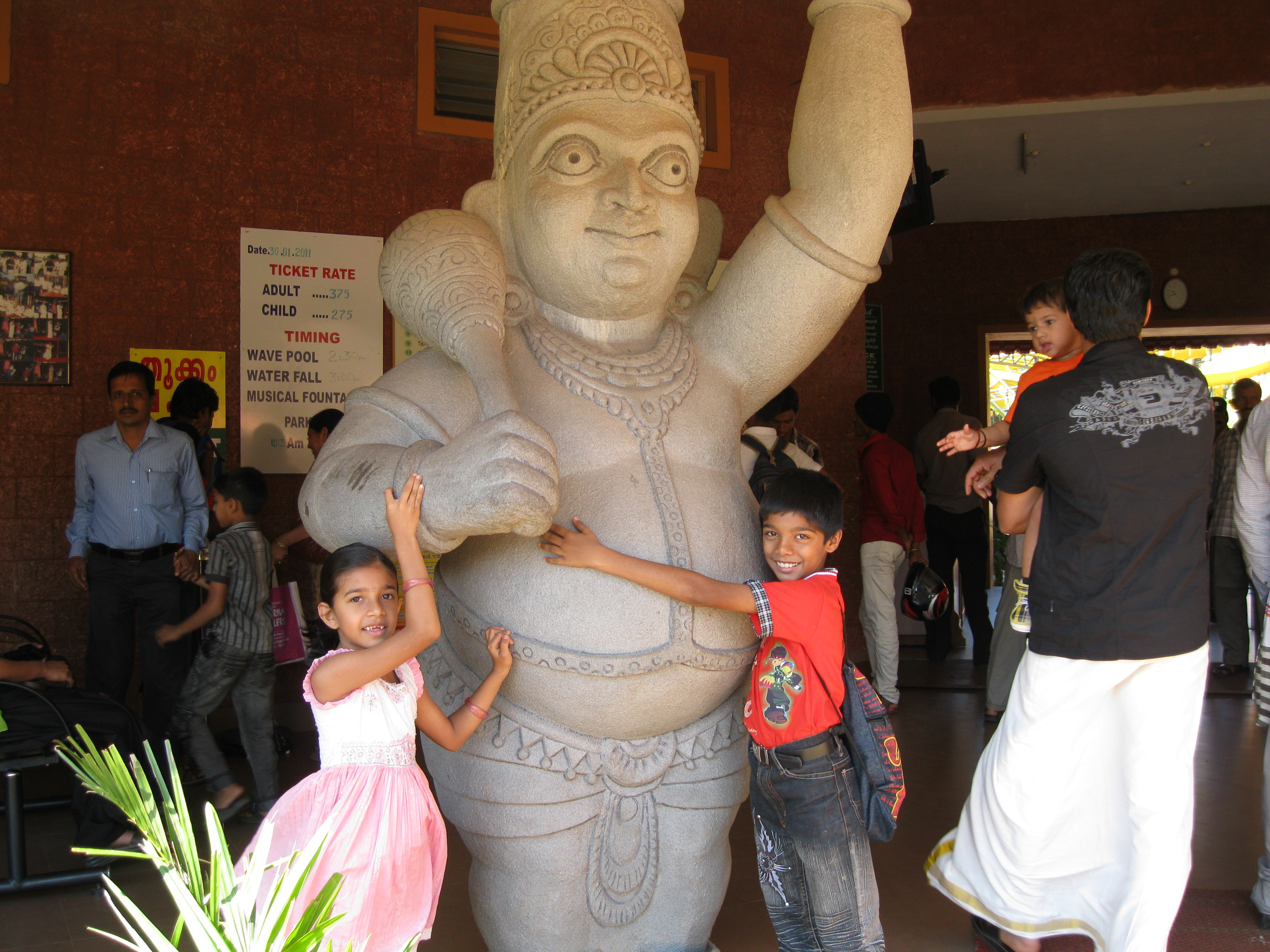 vismaya amusement park,Kannur,Kerala,India